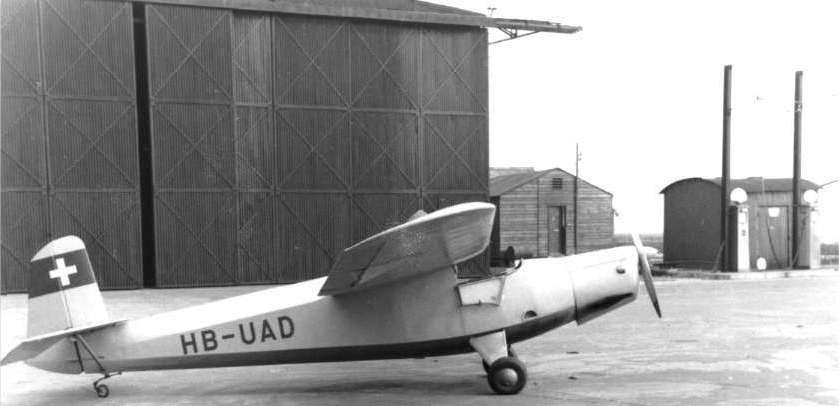 Praga E-114C Air Baby HB-UAD, post-war built, at Manchester Airport in 1953